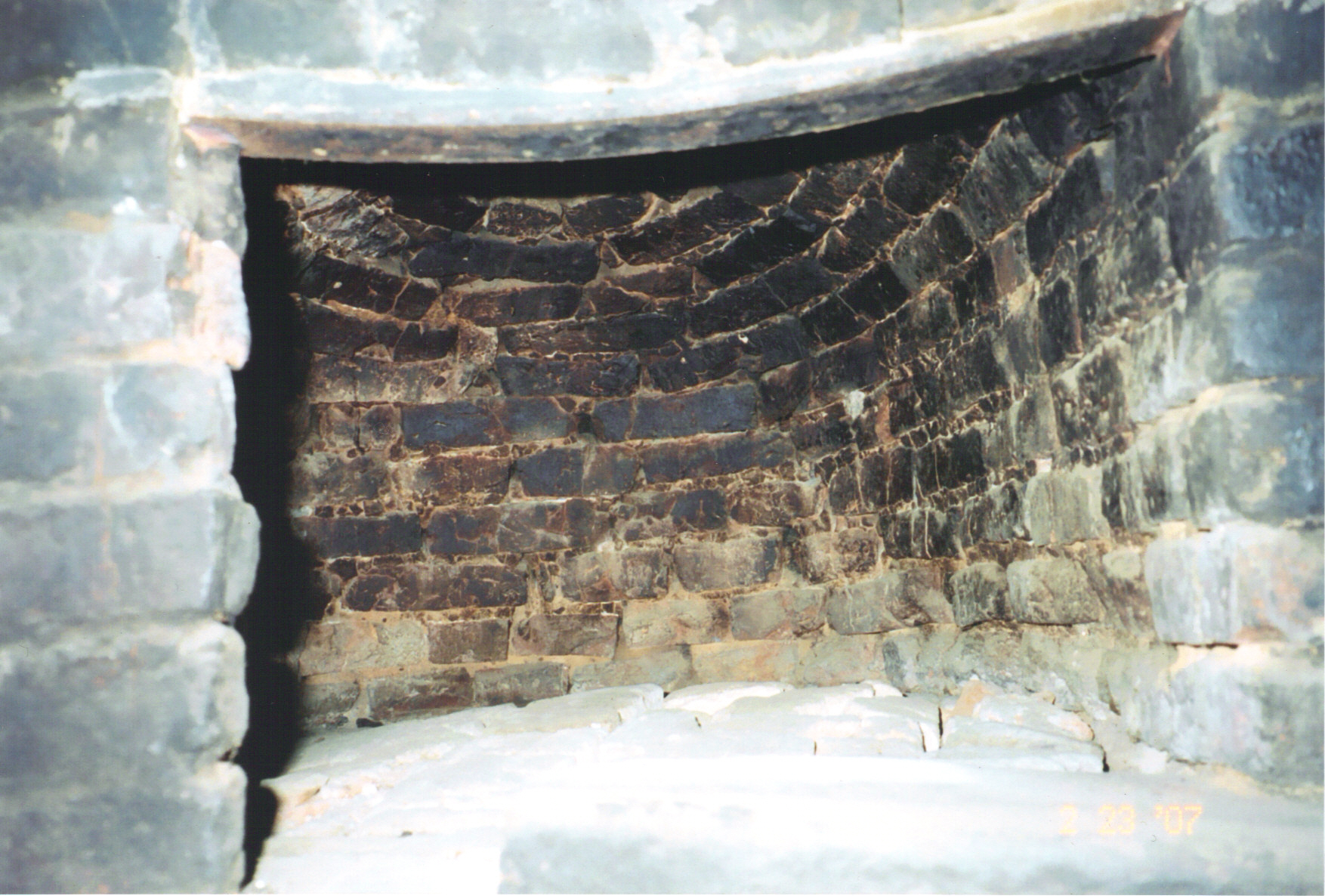 Close-up beehive bake oven